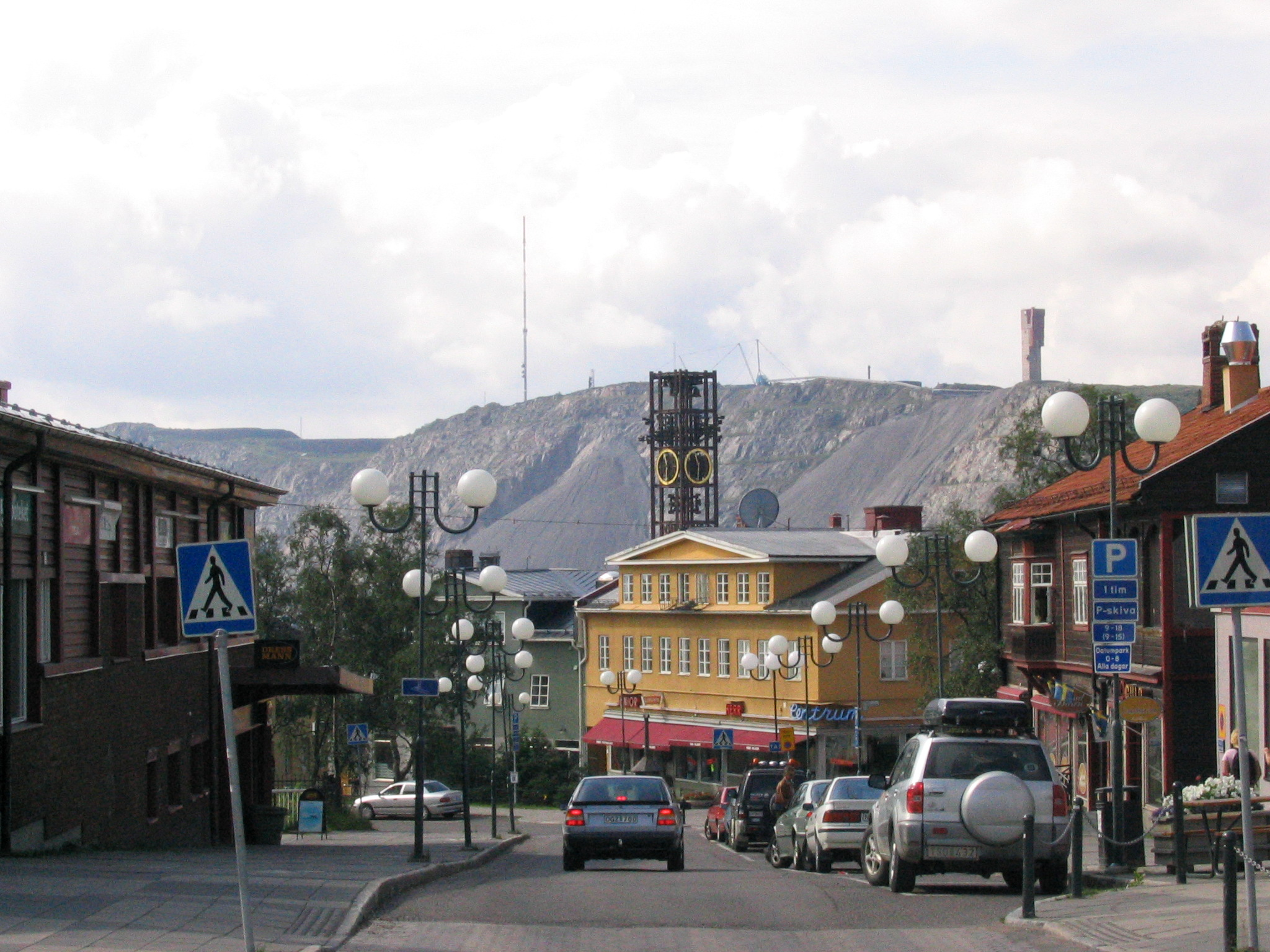 Centrum of Kiruna with the mines in the background